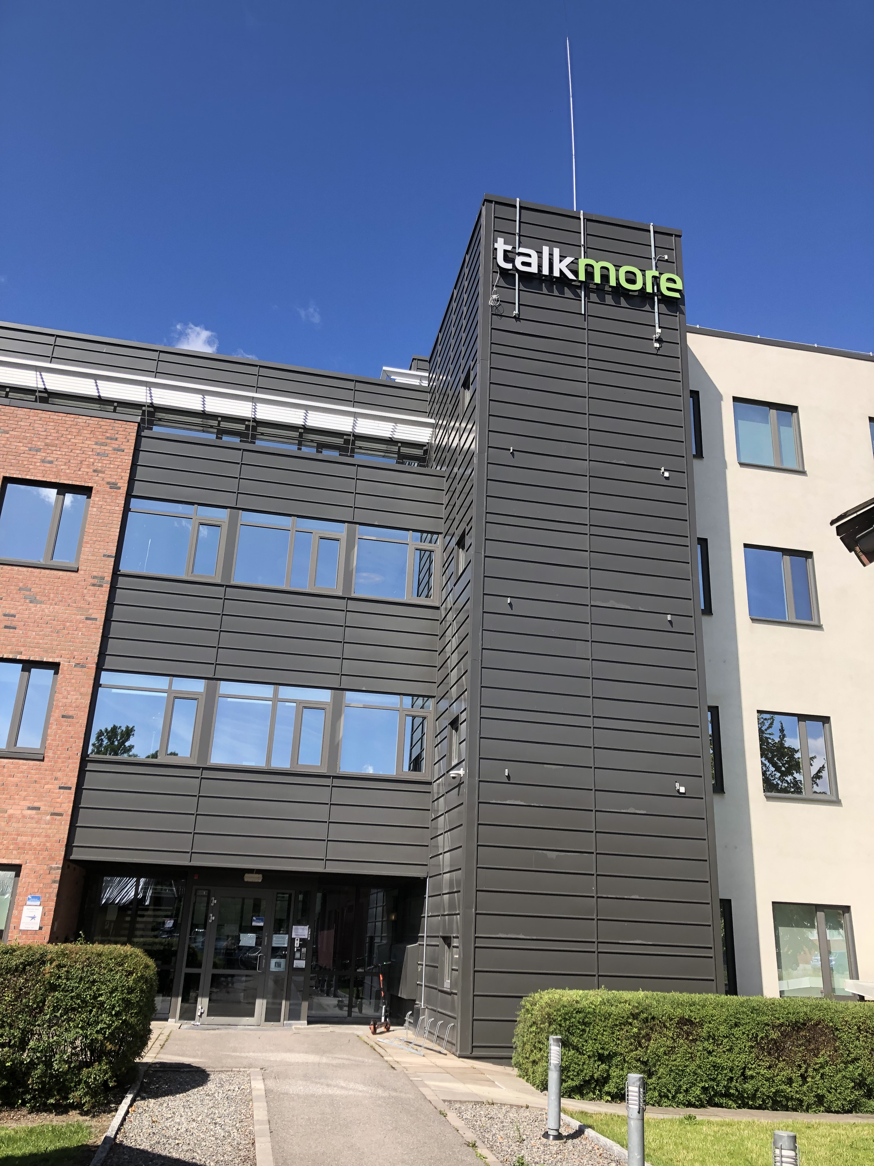 Talkmore, Grenseveien 95, Oslo, Norway.